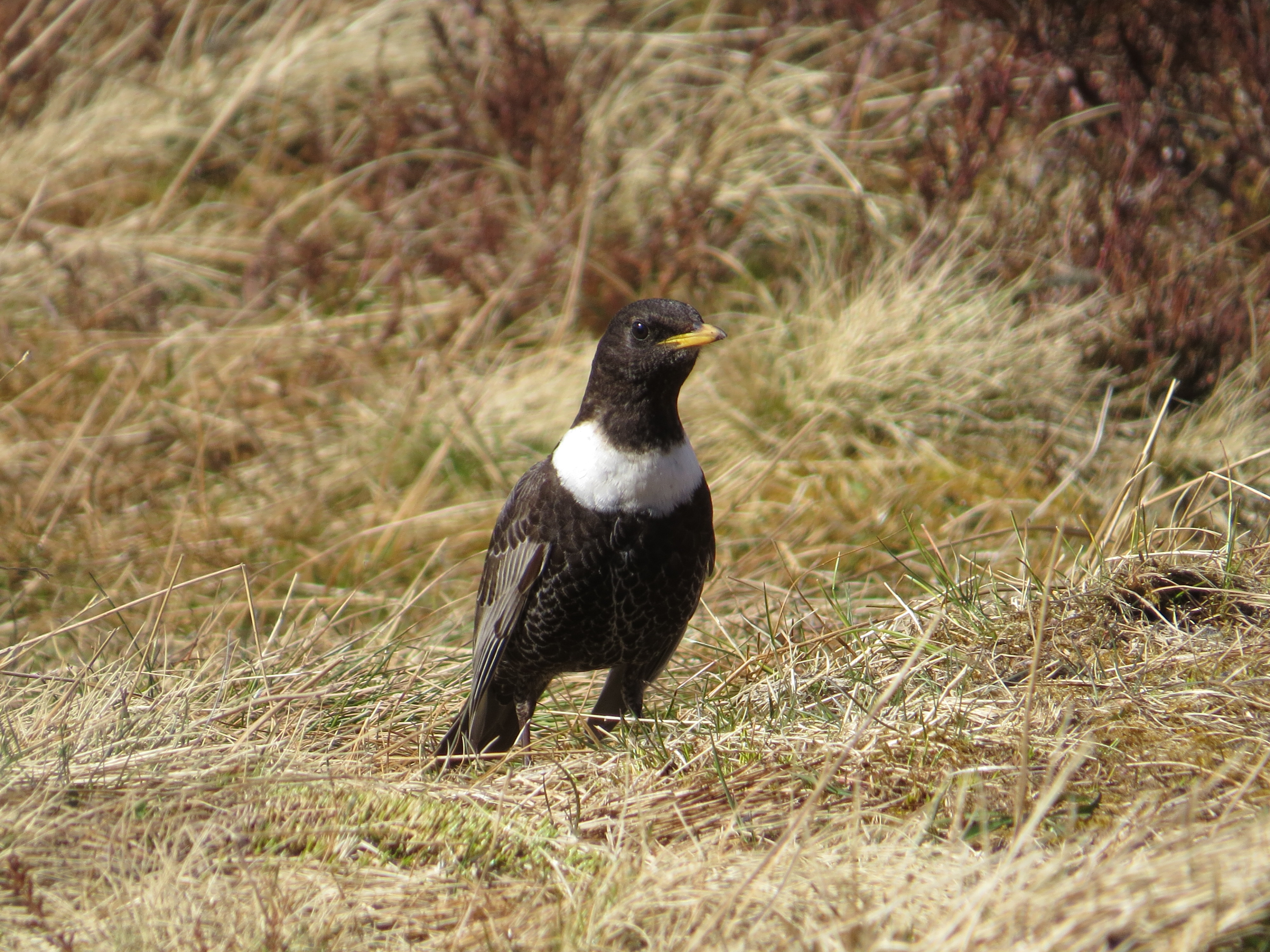 Ring Ouzel Turdus torquatus torquatus, male, at 635 m on Cairngorm, Scotland